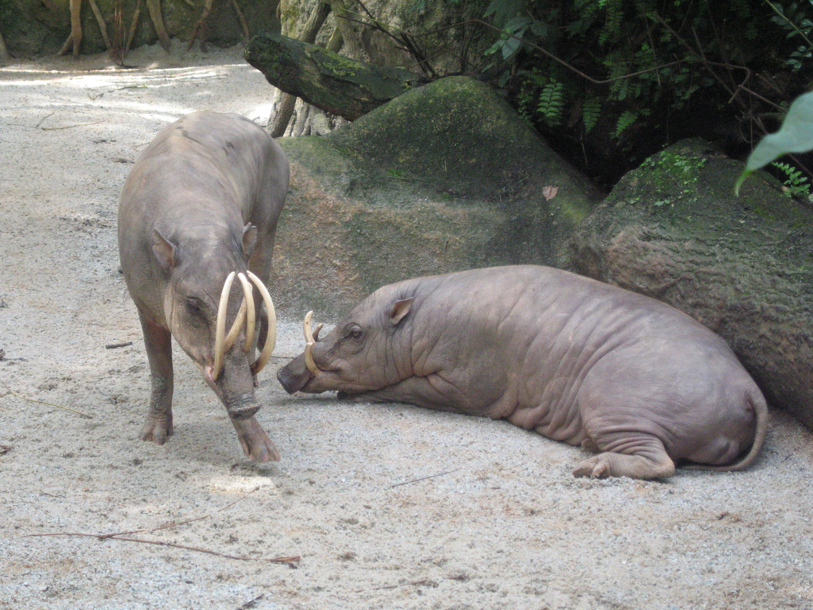 North Sulawesi Babirusas at Singapore Zoo.